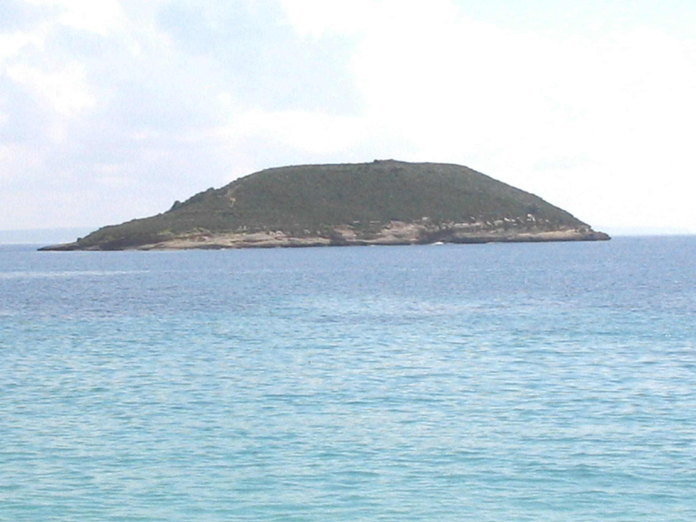 A spanish small island called La Porrassa in magaluf mallorca.